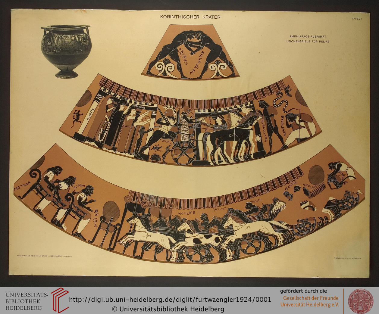 Scanned image of an Corinthian Black-Figure Column Krater, ca. 570-560 BCE by the Amphiaraos Painter depicting the entire vessel. Side A: a frieze of horsemen and above it the departure of Amphiaraos. Side B: a frieze with hoplites in battle and above it funeral games for Pelias (chariot race). Wrestlers under left handle. The image was originally uploaded by user:Απάγγειο from Furtwängler, Adolf; Reichhold, Karl; Hauser, Friedrich; Buschor, Ernst; Watzinger, Carl; Zahn, Robert. (1904-1932) Griechische Vasenmalerei : Auswahl hervorragender Vasenbilder, Munich: Bruckmann. This version of the image is a direct download from Furtwängler to obtain a much better source image.